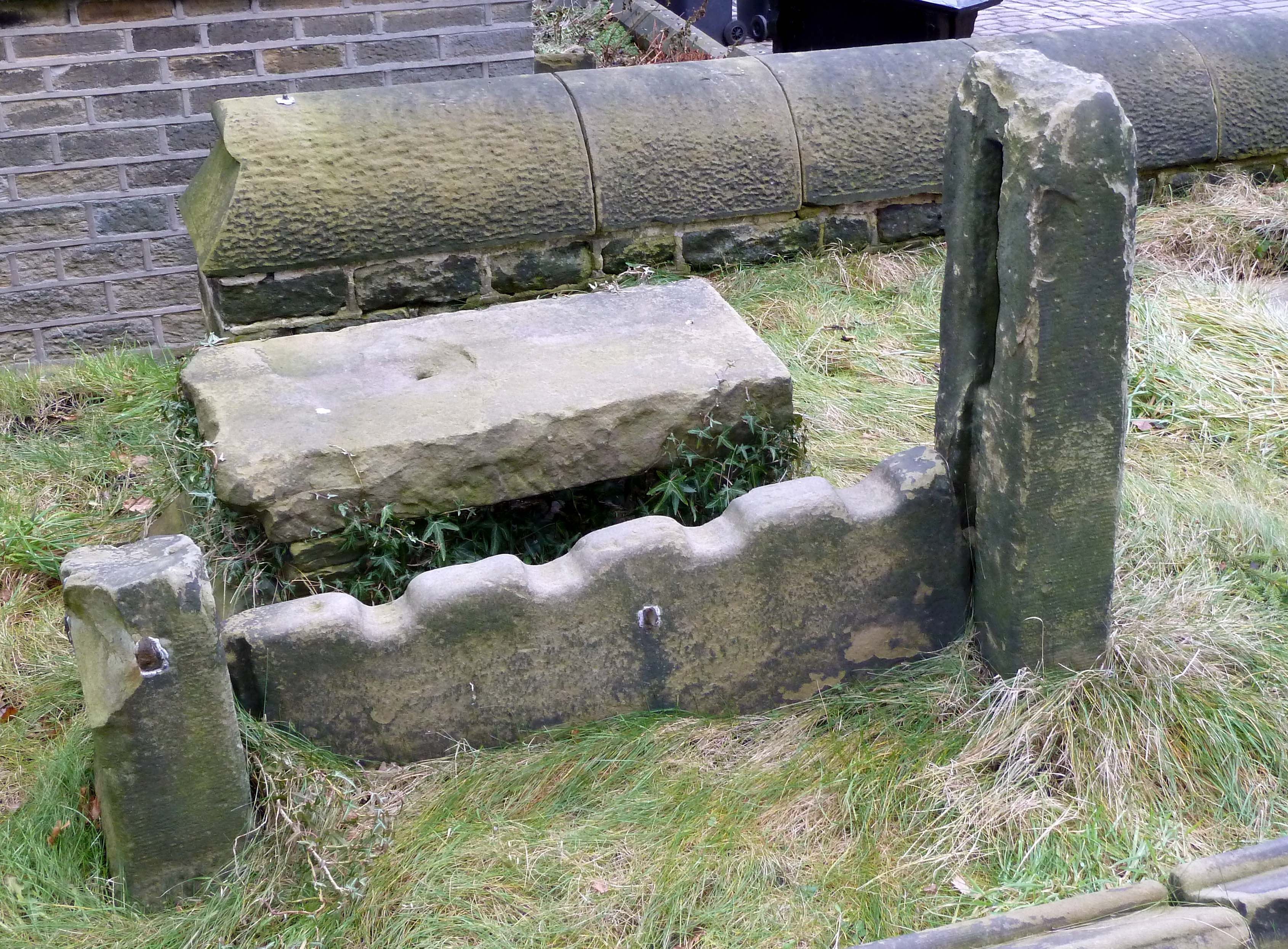 Remains of village stocks in the church-yard of St Mary's church, Honley, Yorkshire